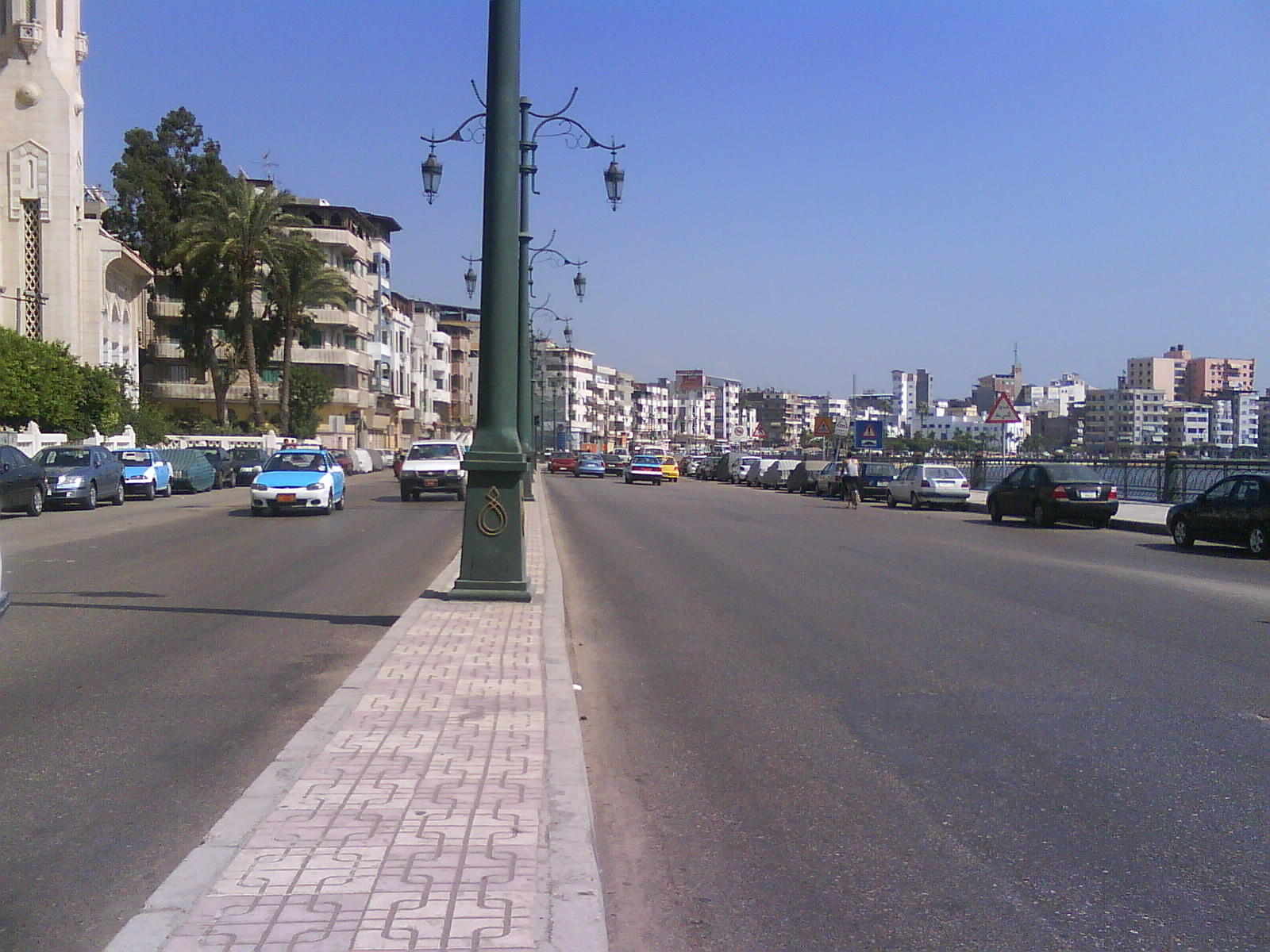 Damietta's Corniche